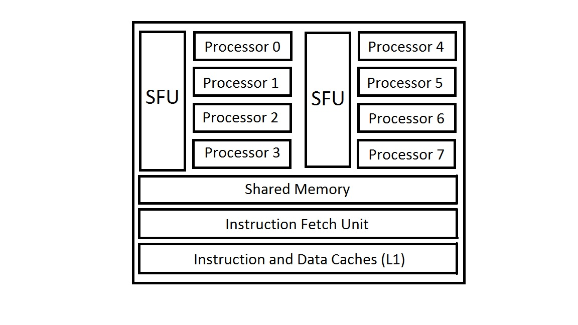 Image illustrating a streaming multiprocessor in a GPU unit and its resources.